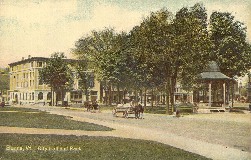 City Hall and Park, Barre, Vermont; from a c. 1910 postcard published by the Leighton & Valentine Company.